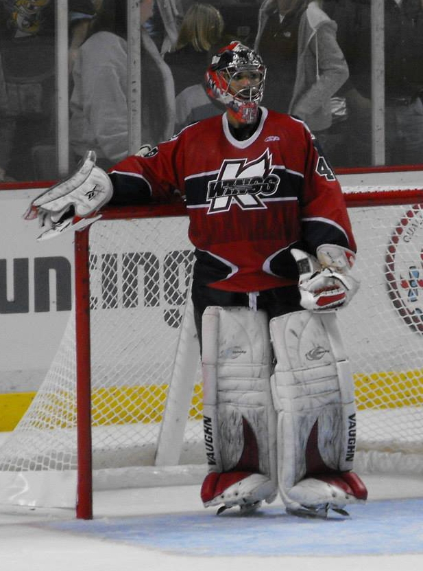 Taken 10/13/2012 @ Huntington Center, Toldeo, OH